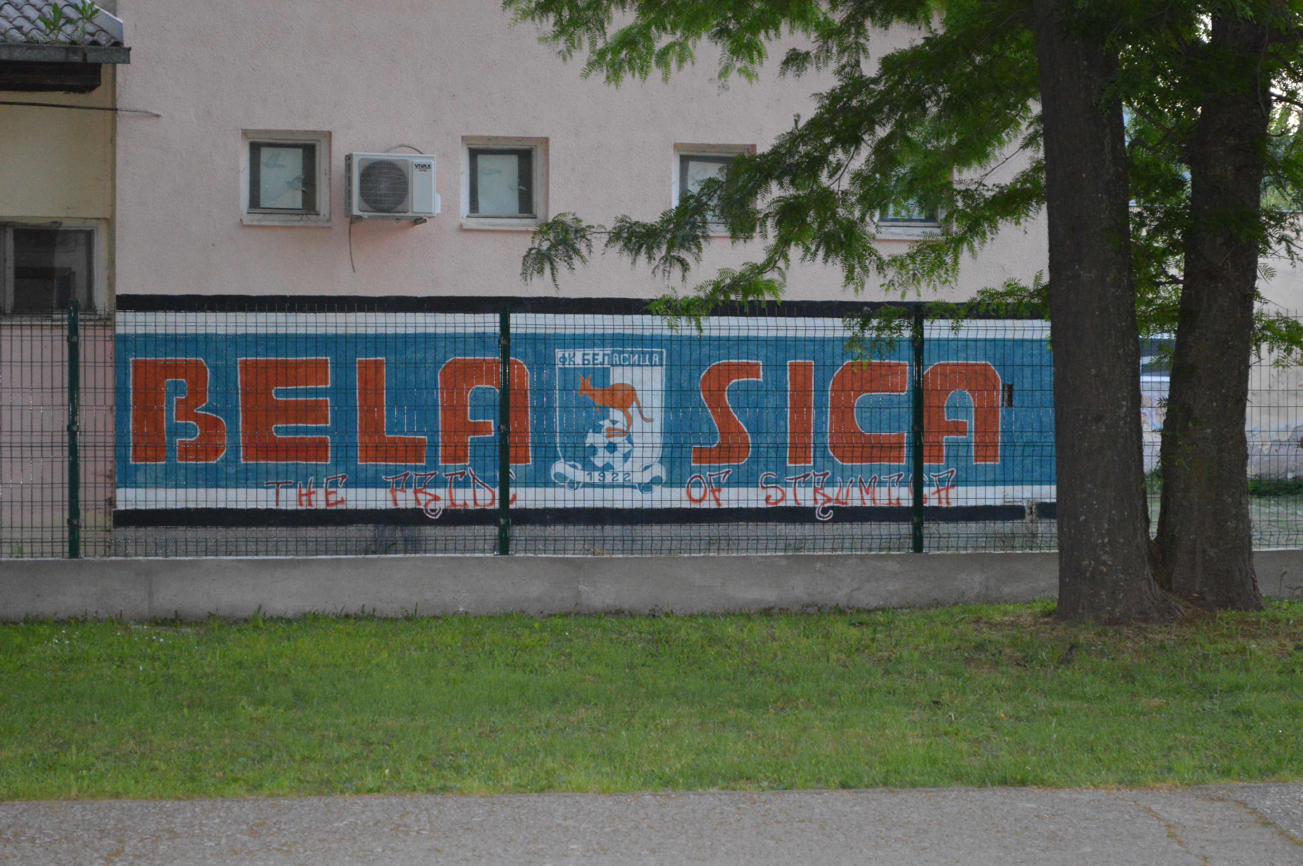 Graffiti in the park in Strumica of the local football club "Belasica".